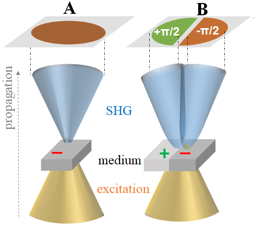 SHG radiation pattern excited with a Gaussian beam, in a homogeneous medium or at an interface between opposite polarities that is parallel to the propagation. The 2nd case shows 2 lobes of opposite amplitude (pi phase-shifted), while the 1st one is a classic 2D Gaussian.